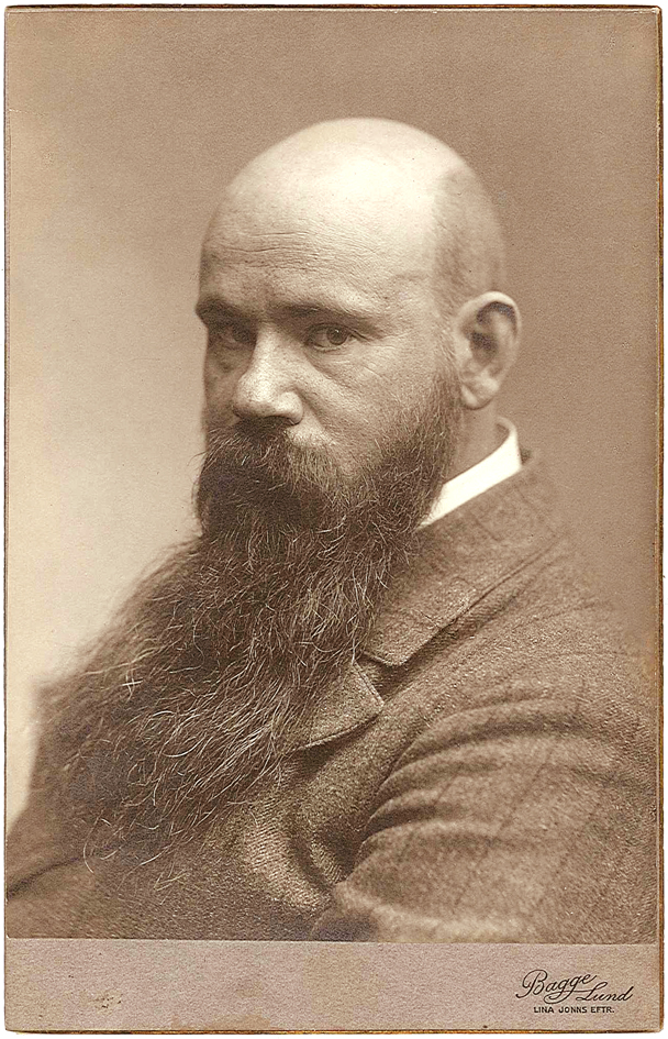 Ernst Norlind (1877-1952), Swedish artist (mainly painter) and author.